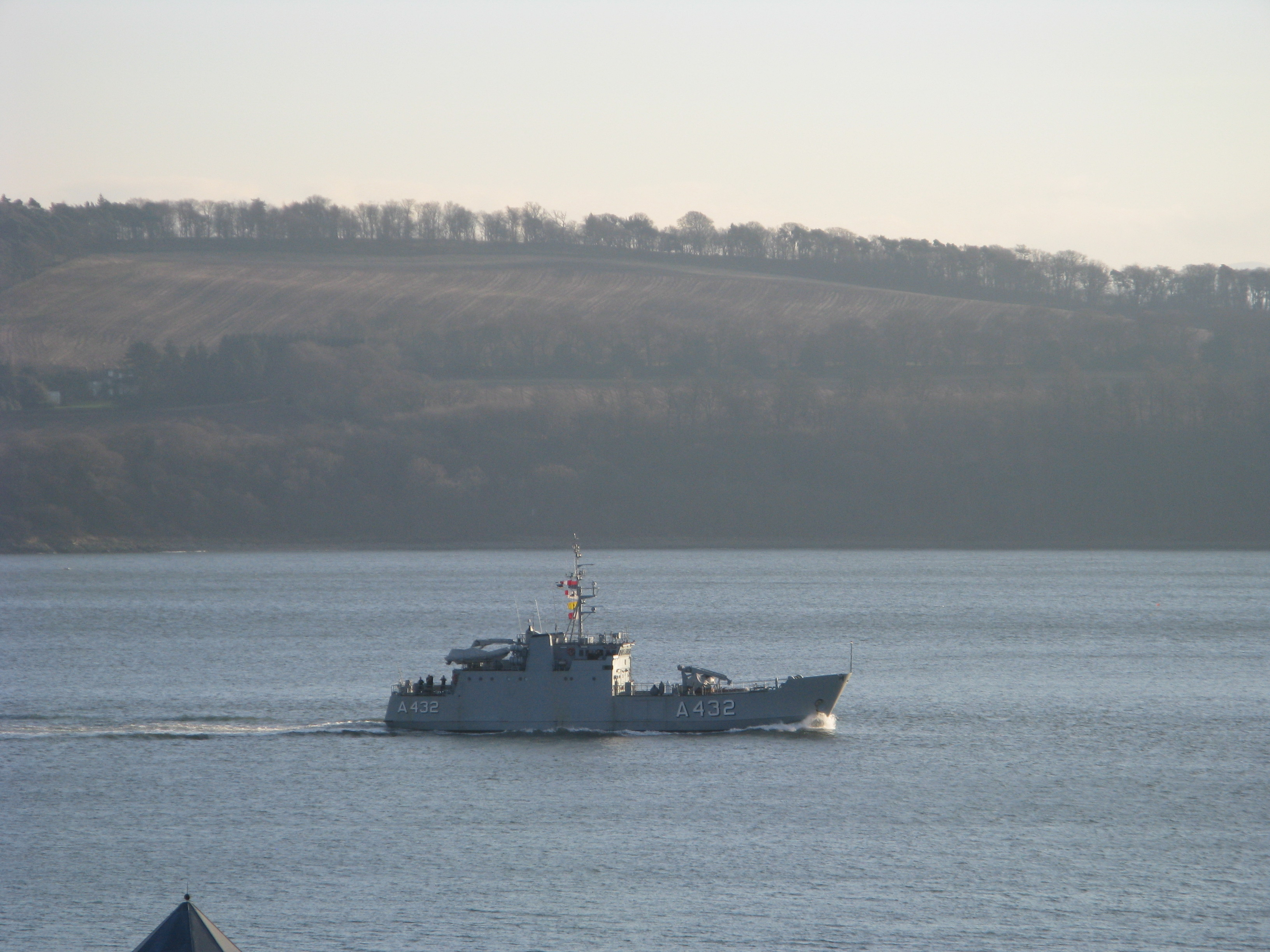 Formerly HDMS Lindormen (N43) of the Danish navy.